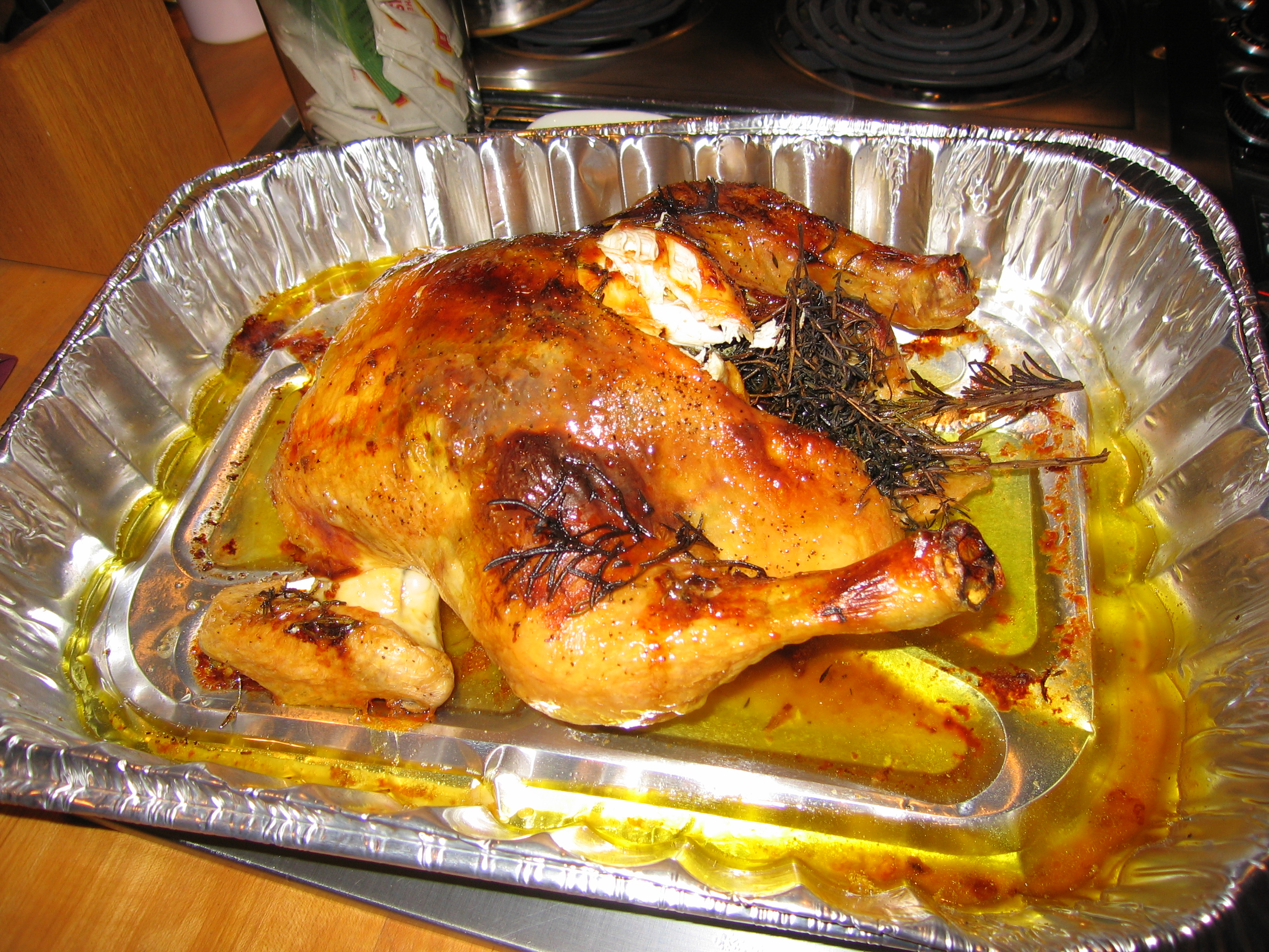 I made this. Soft butter plus handfuls of thyme and